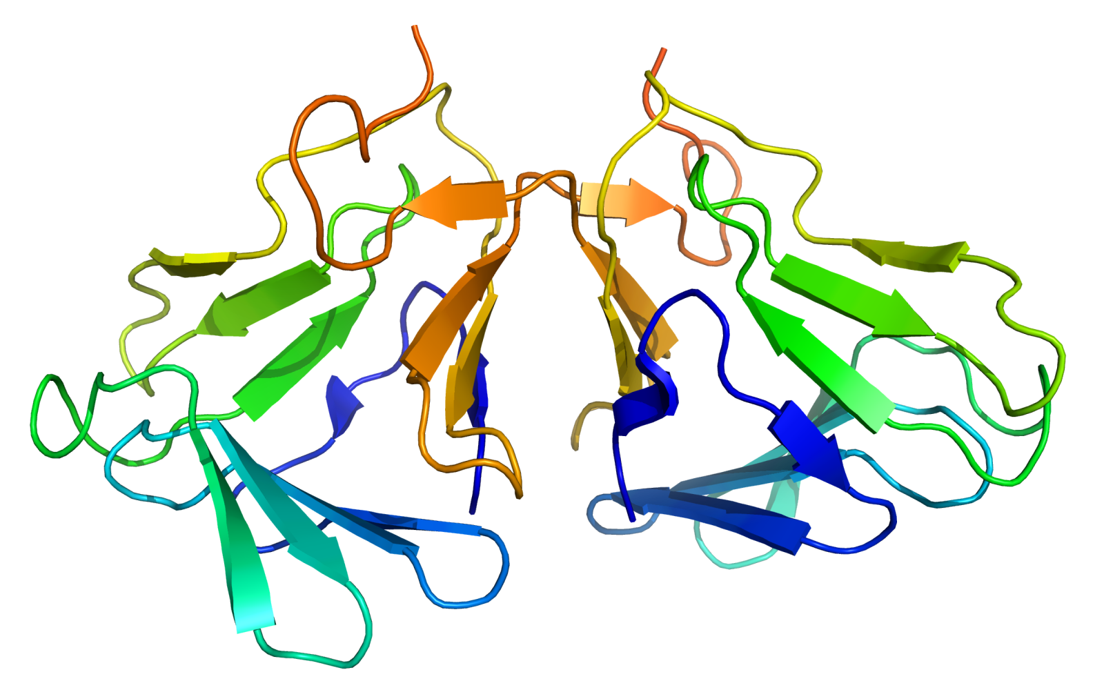 Cartoon diagram of a curculin homodimer. Orientation made to match figure in original source.Created using PyMOL ( and GIMP. Optimized with OptiPNG.